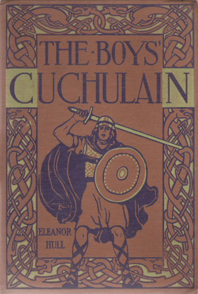 Cover of Eleanor Hull's The Boys' Cuchulainn, illustration by Stephen Reid